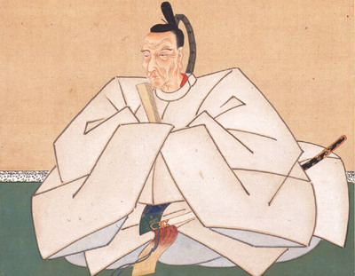 Came with a box inscribed: 奉寄進 泰盛院殿御影一幅 恵日山高傳禅寺常住 寛文元辛丑年十月吉日 性空院